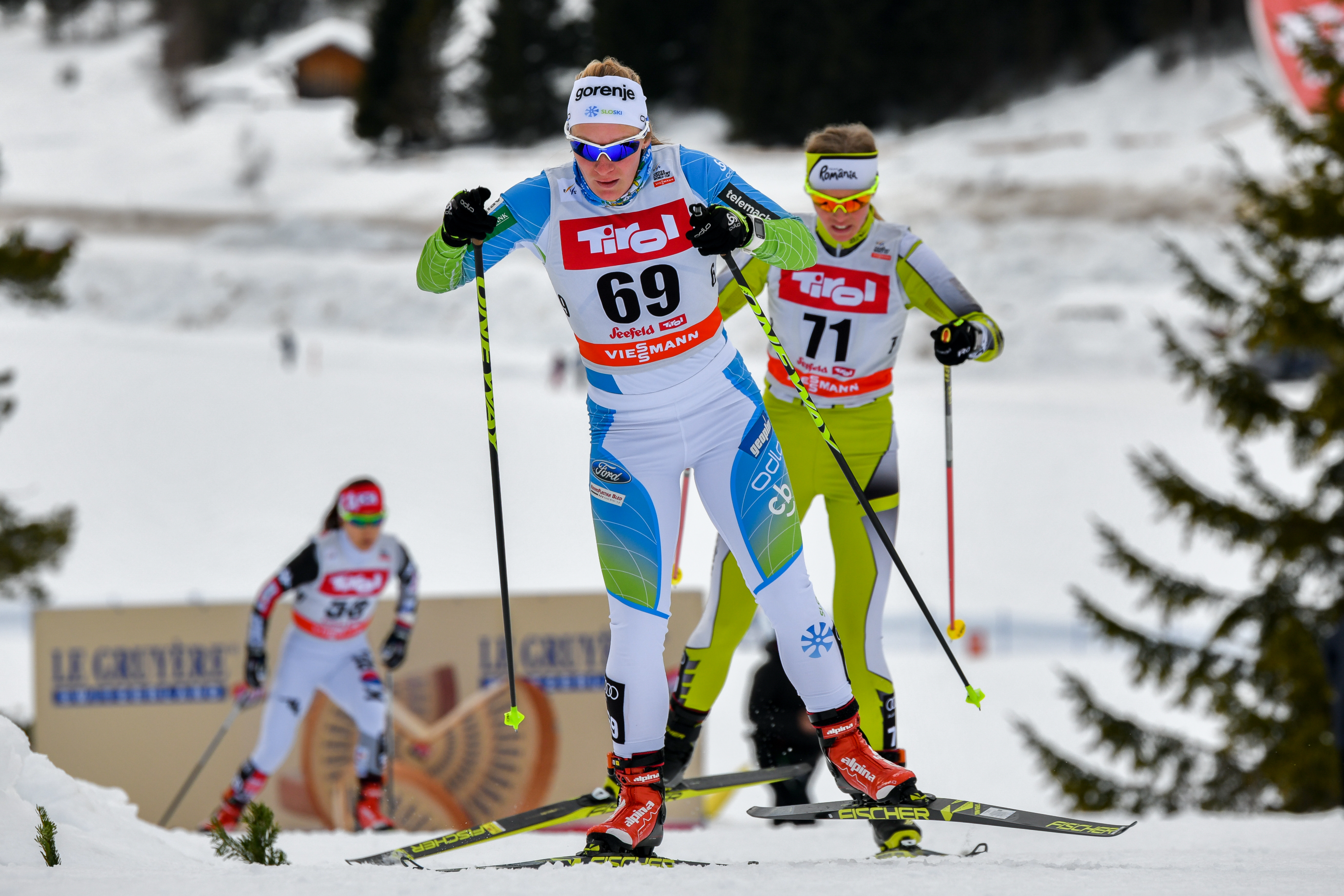 Seefeld-Triple 2018, third day January 28th. Picture shows RAZINGER Nika (SLO).